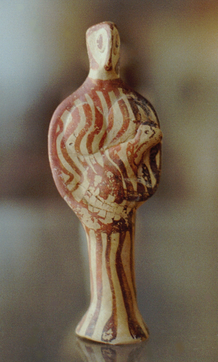 Mycenaean figurine ("bird goddess") with baby. Small terracotta, late Bronze Age. Archaeological Museum of Argos.